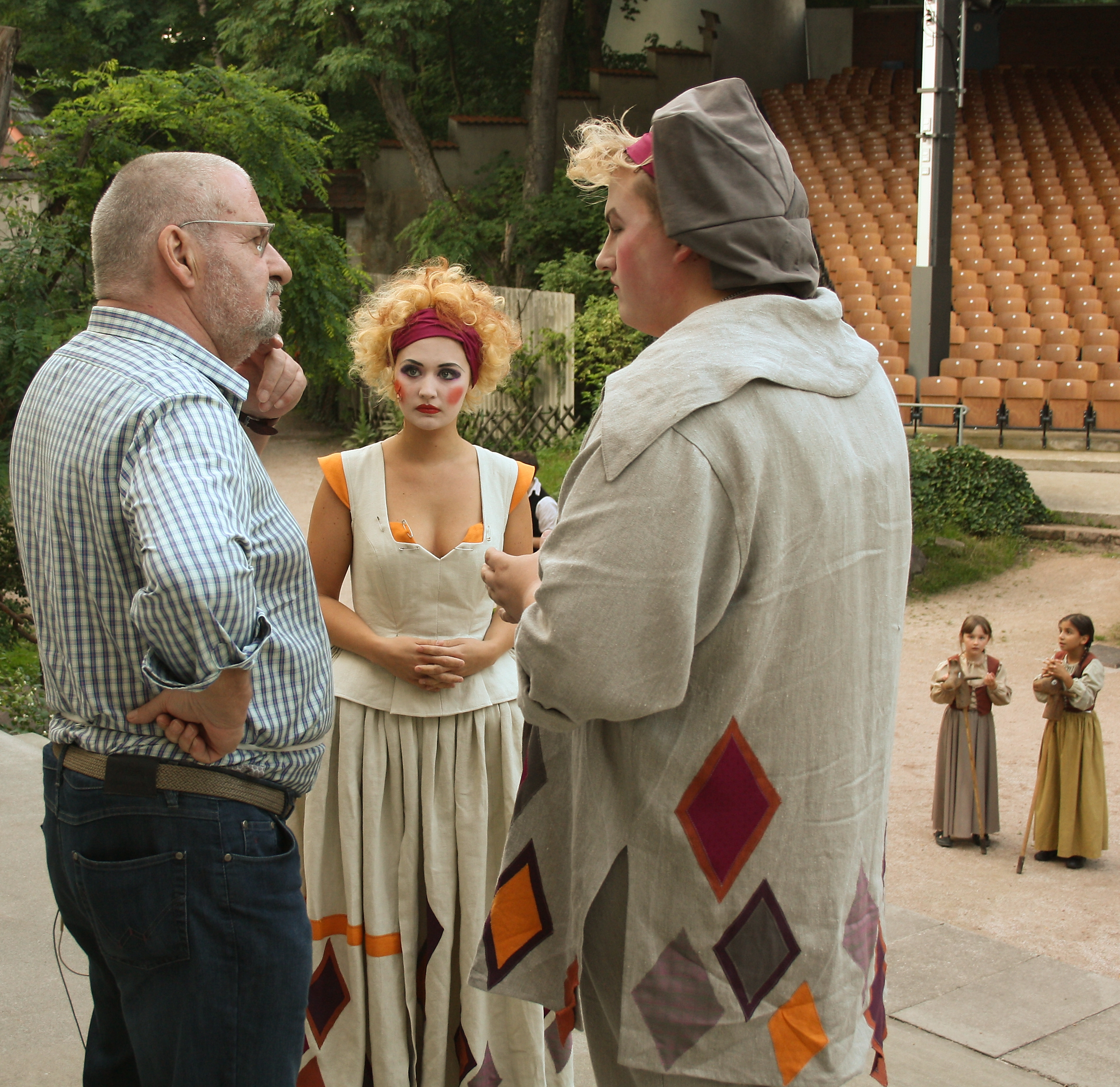 Direktor Sepp Strubel stages Shakespeare's "The Taming of the Shrew" on Germany's largest open air theatre